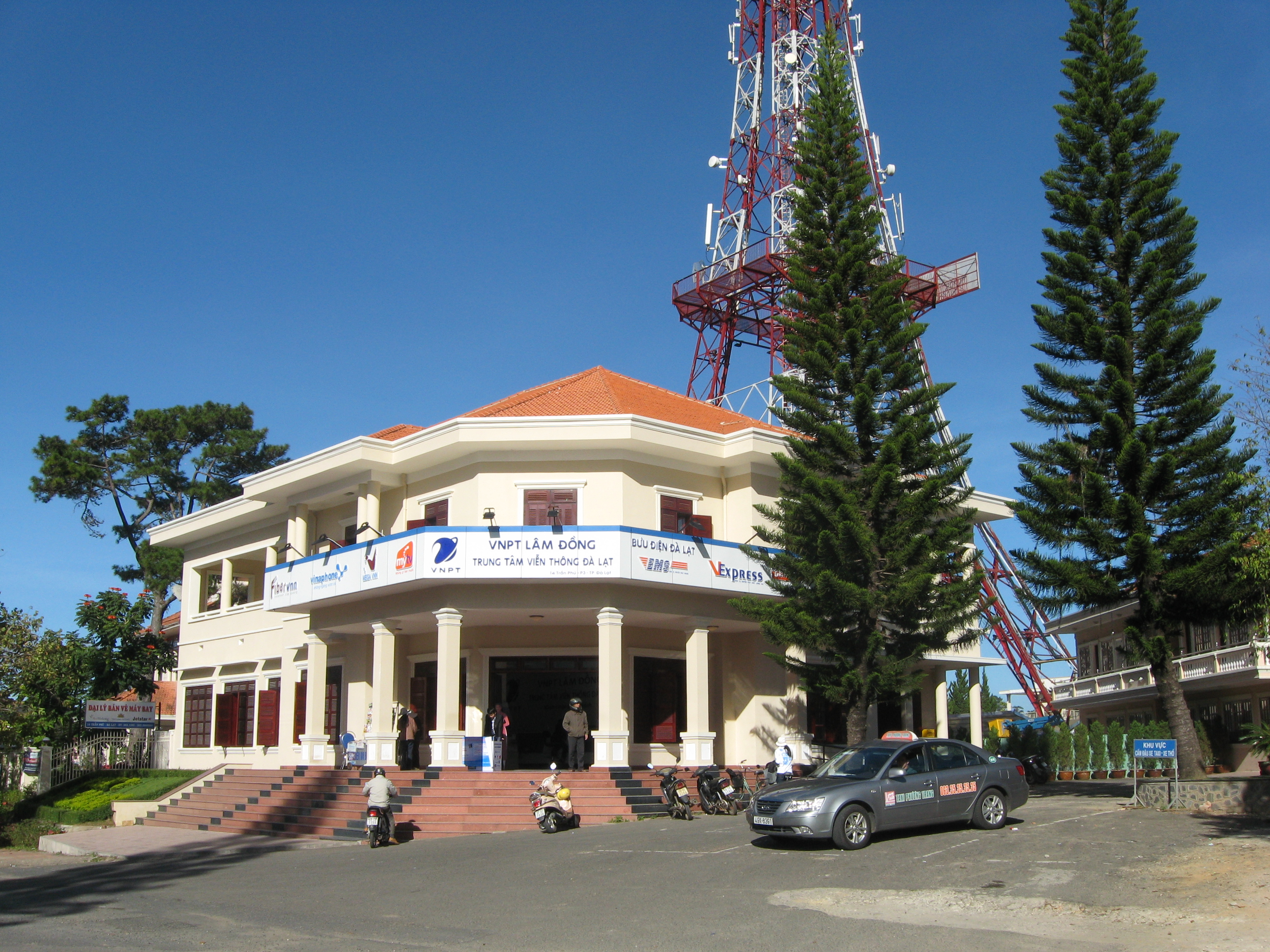 Da Lat Post Office